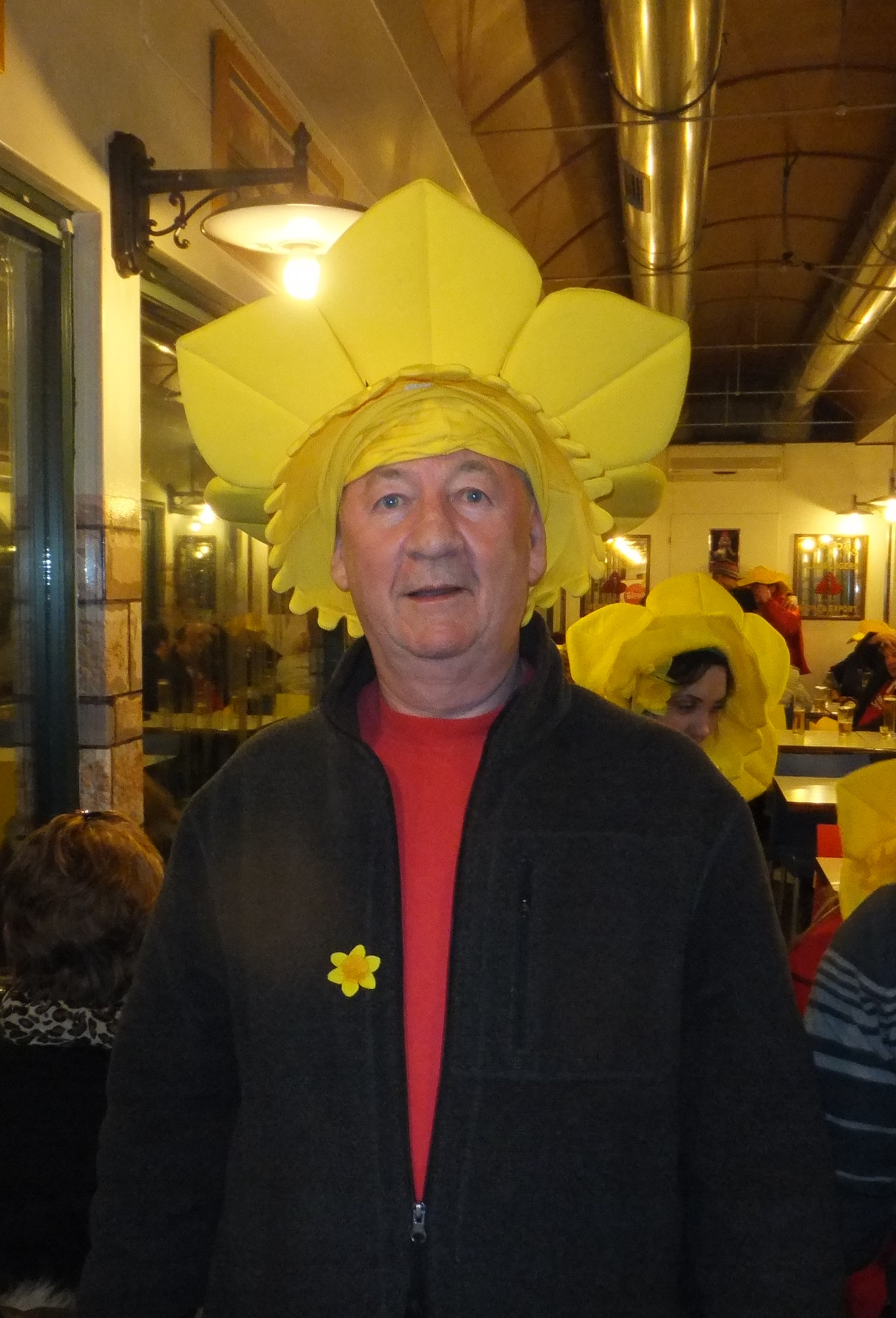 The author Terry Breverton supporting the Wales rugby union team in Rome 2013